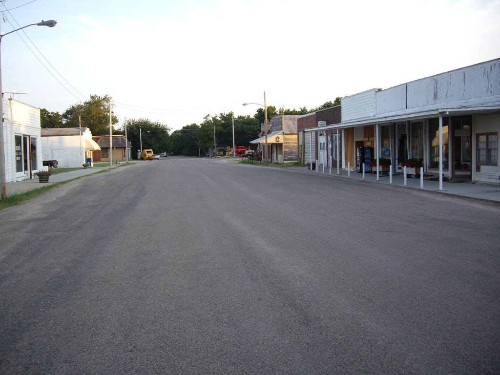 Downtown Durham, Kansas, USA. Photo by Steve Meirowsky on August 7, 2010.